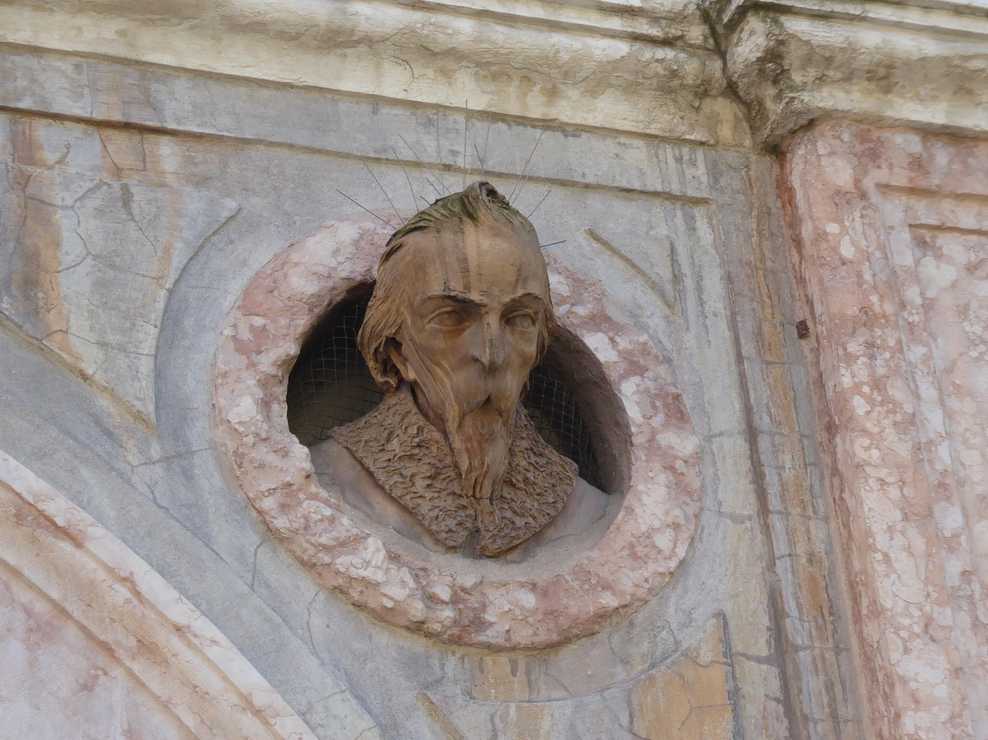 Bust of Francesco Guardi on the facade of Palazzo Ranzi, in Trento, by Andrea Malfatti